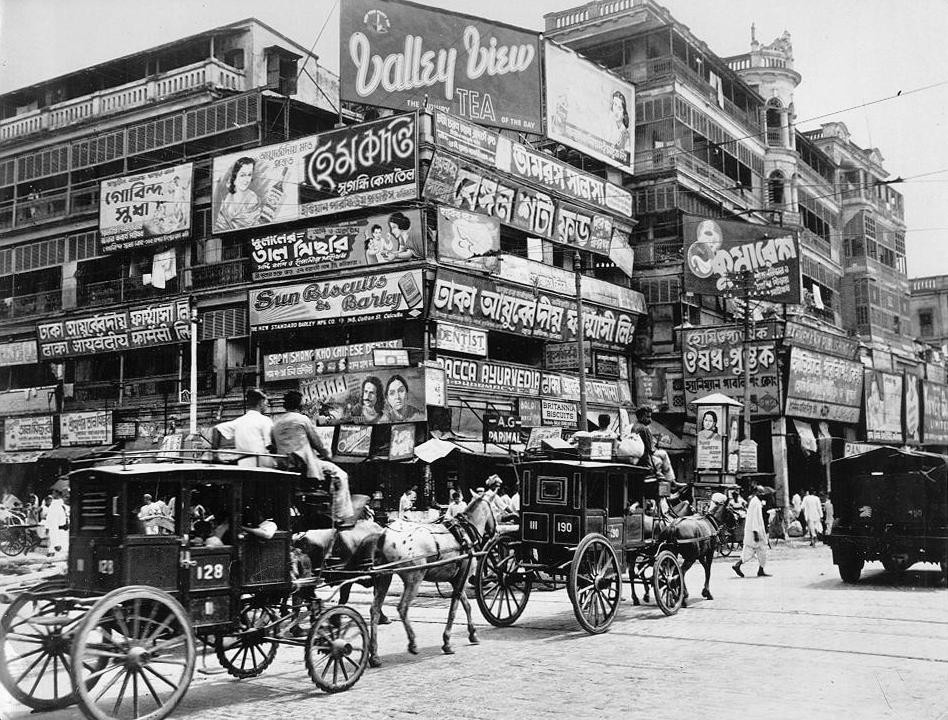 Original description:"A bewildering mass of billboards at the corner of Harrison Street (Burra Bazar) and Strand Road. One of the oldest secions of Calcutta, at the foot of Howrah Bridge, it is a fine vantage point for photo-graphing the passing parade of oddly dressed natives and curious vehicles." The South Asia Section of the Van Pelt Library, University of Pennsylvania recently acquired from a bookdealer a photograph album consisting of 60 photographs of Calcutta taken most likely between 1945-1946. The photographer, Mr. Clyde Waddell, also provided the interesting glosses accompanying each photograph. Several attested copies of this work has emerged including one with a 'title page' held by the Southeastern Louisiana University in Hammond, Louisiana. Mr. Waddell was a military photographer. Many of his captions sound like annotations that would be found in a typical military magazine. The album begins with several general long shots of Calcutta and ends with a picture of dhobi-s (washermen) washing clothes. The text accompanying the last photograph also sounds as if the author intended to finish with that picture of one of the "great mysteries of India." The annotations have been included because of their intrinsic interest not only to the photographs but to a 'typical' American impression of India at this time.